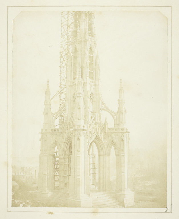 Salted paper print by Henry Fox Talbot, plate II from the album "Sun Pictures in Scotland" (1845)